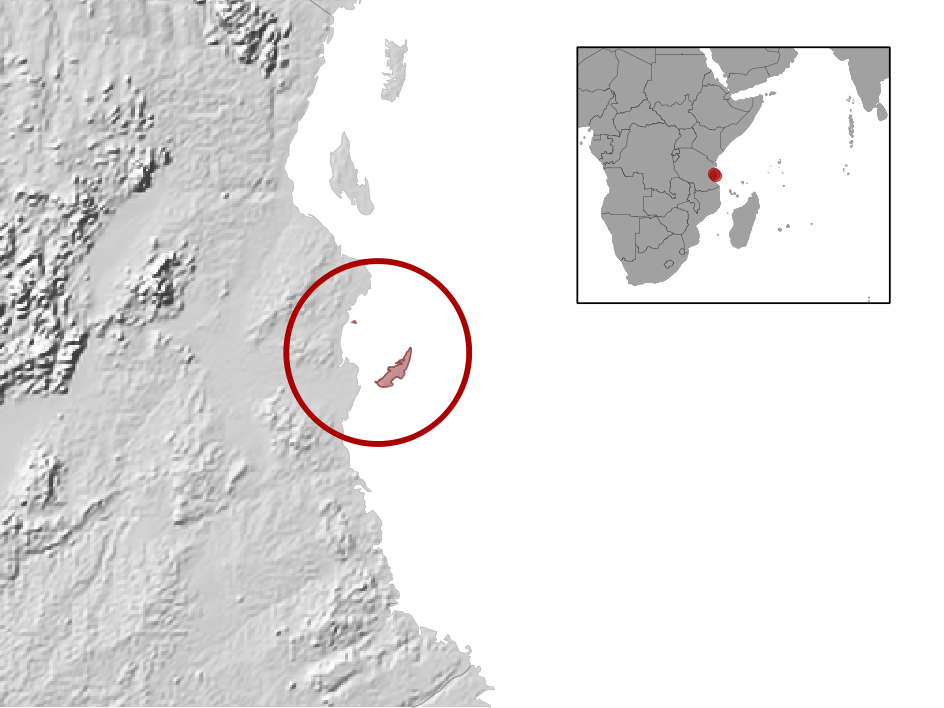 geographic distribution of Lygosoma mafianum